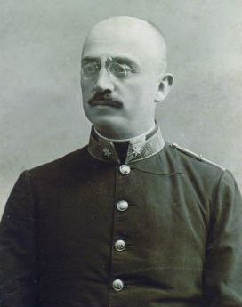 Risto Savin (1859-1948), slovene composer and general.